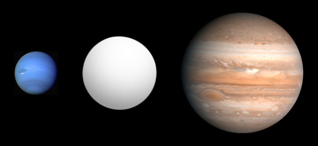 Comparison of best-fit size of the exoplanet HD 149026 b with the Solar System planets Jupiter and Neptune, as reported in the Open Exoplanet Catalogue[1] as of 2010-09-30. ↑ Open Exoplanet Catalogue (2010-09-30). Retrieved on 2010-09-30.